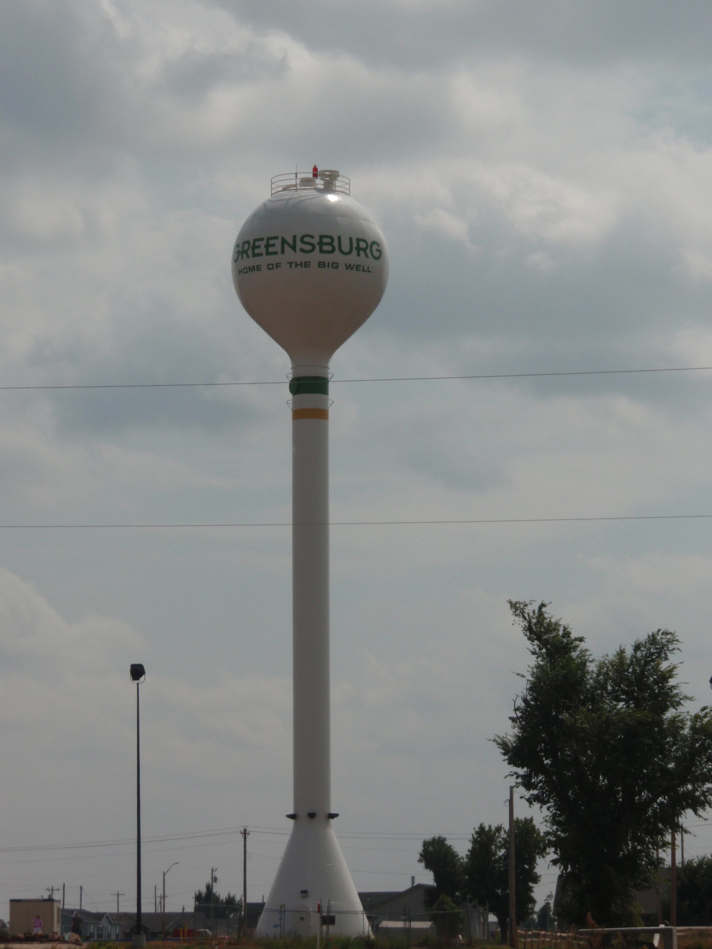 Greensburg, Kansas, Watertower